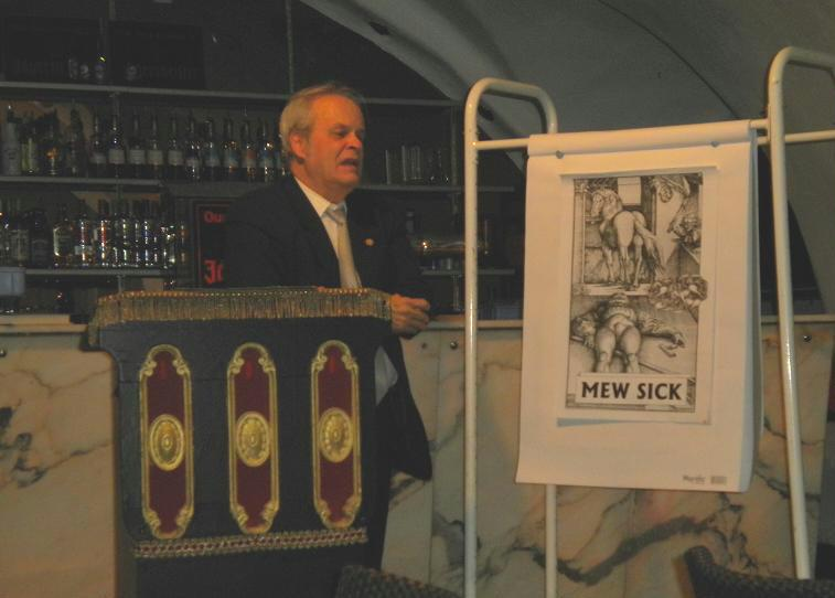 Jacob Truedson Demitz decries the most common mispronunciation of English in his regular lecture "What Impression Do Your Expressions Make?" for Ristesson and Talarforum agencyPlace: Underground lounge at Lillienhoff Palace, Götgatan, Stockholm, Sweden